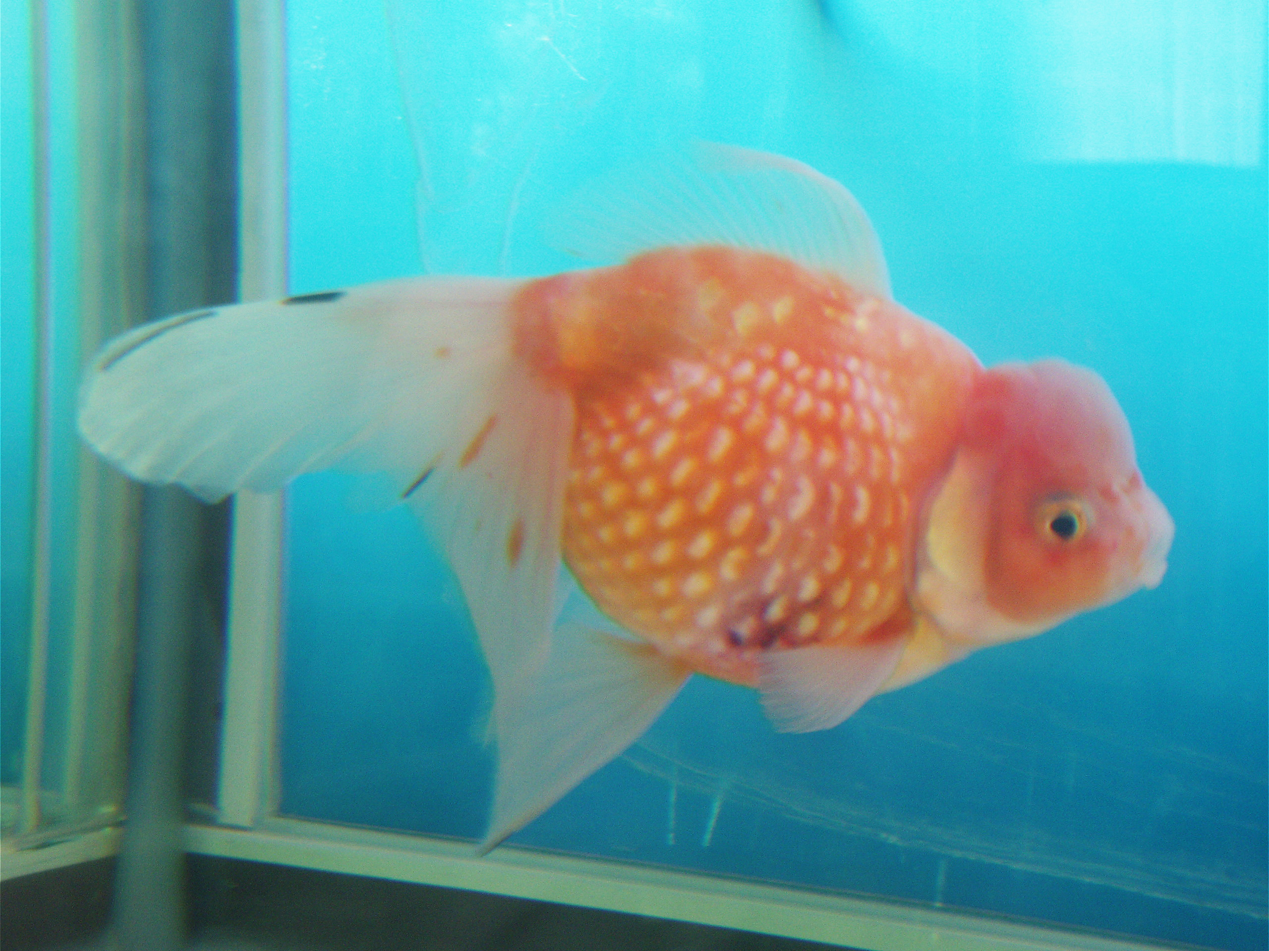 Goldfish